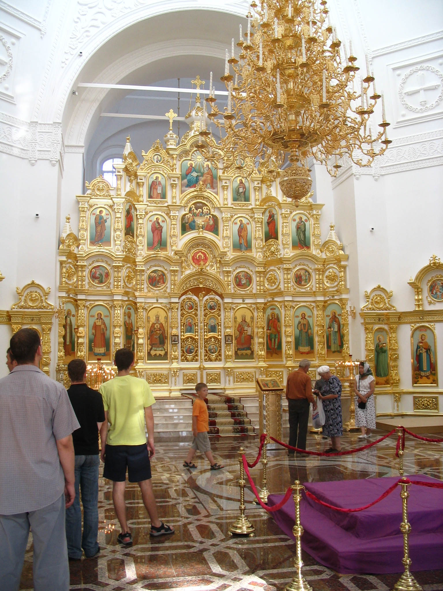 Iconostasis of the Saint Michael the Archangel Church in Izhevsk